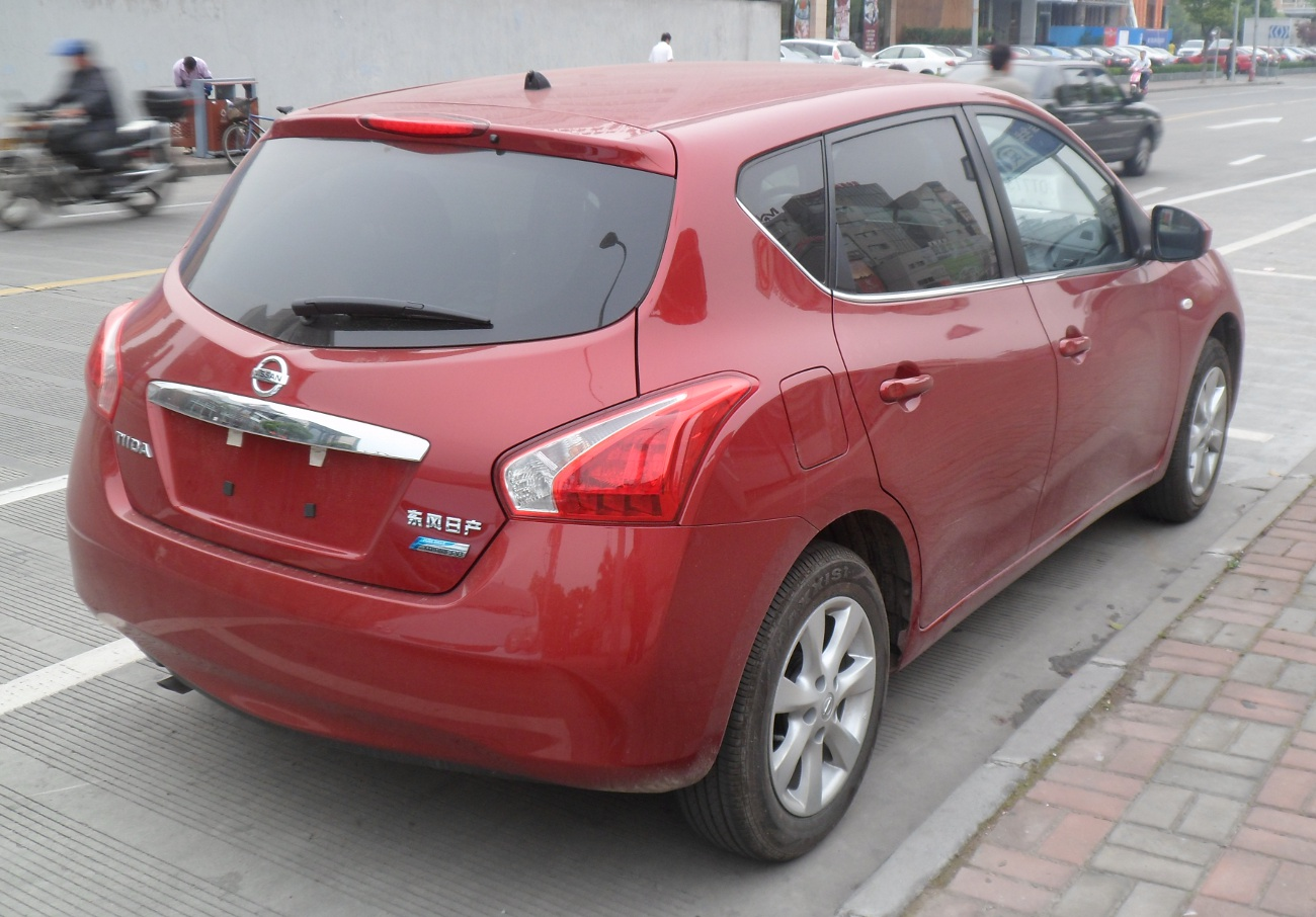 Nissan Tiida C12 photographed in Shanghai, China.